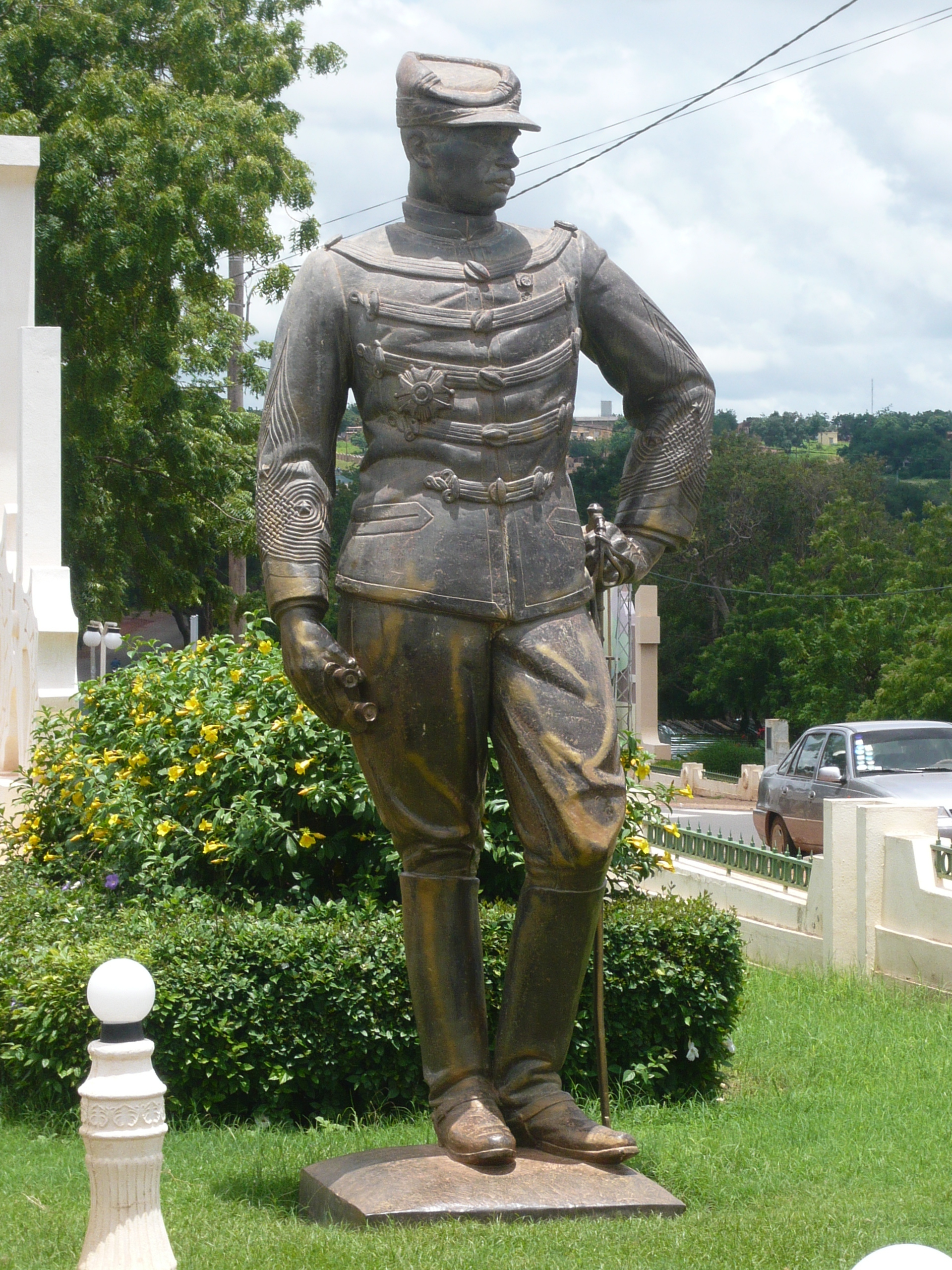 Statue of Gustave Borgnis-Desbordes at explorer place in Bamako (Koulouba), Mali